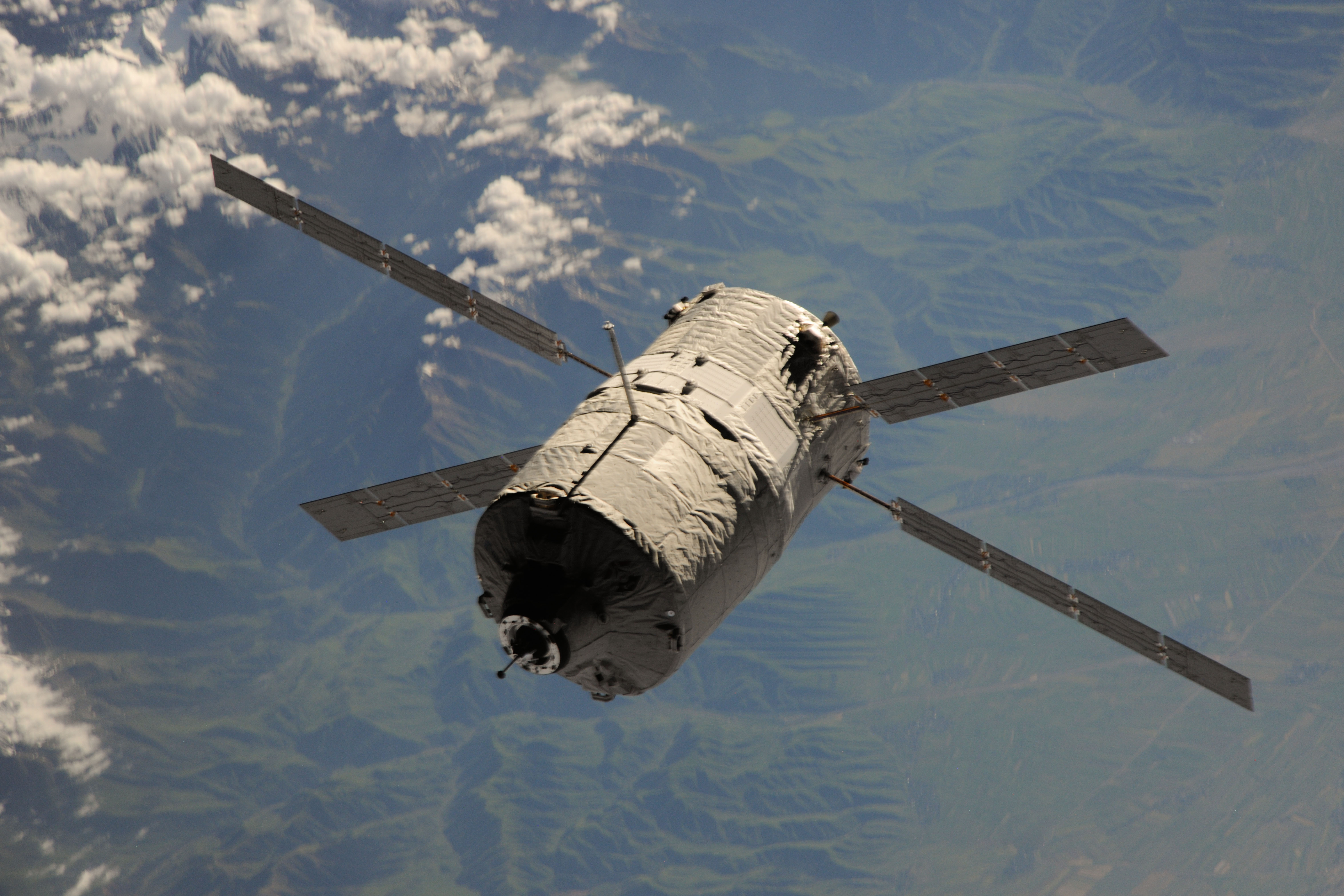 The European Space Agency's Automated Transfer Vehicle-4 (ATV-4) "Albert Einstein" is about to dock to the orbital outpost at 2:07 GMT, June 15, 2013, following a ten-day period of free-flight.